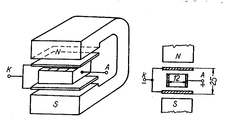 Ion sorption pump